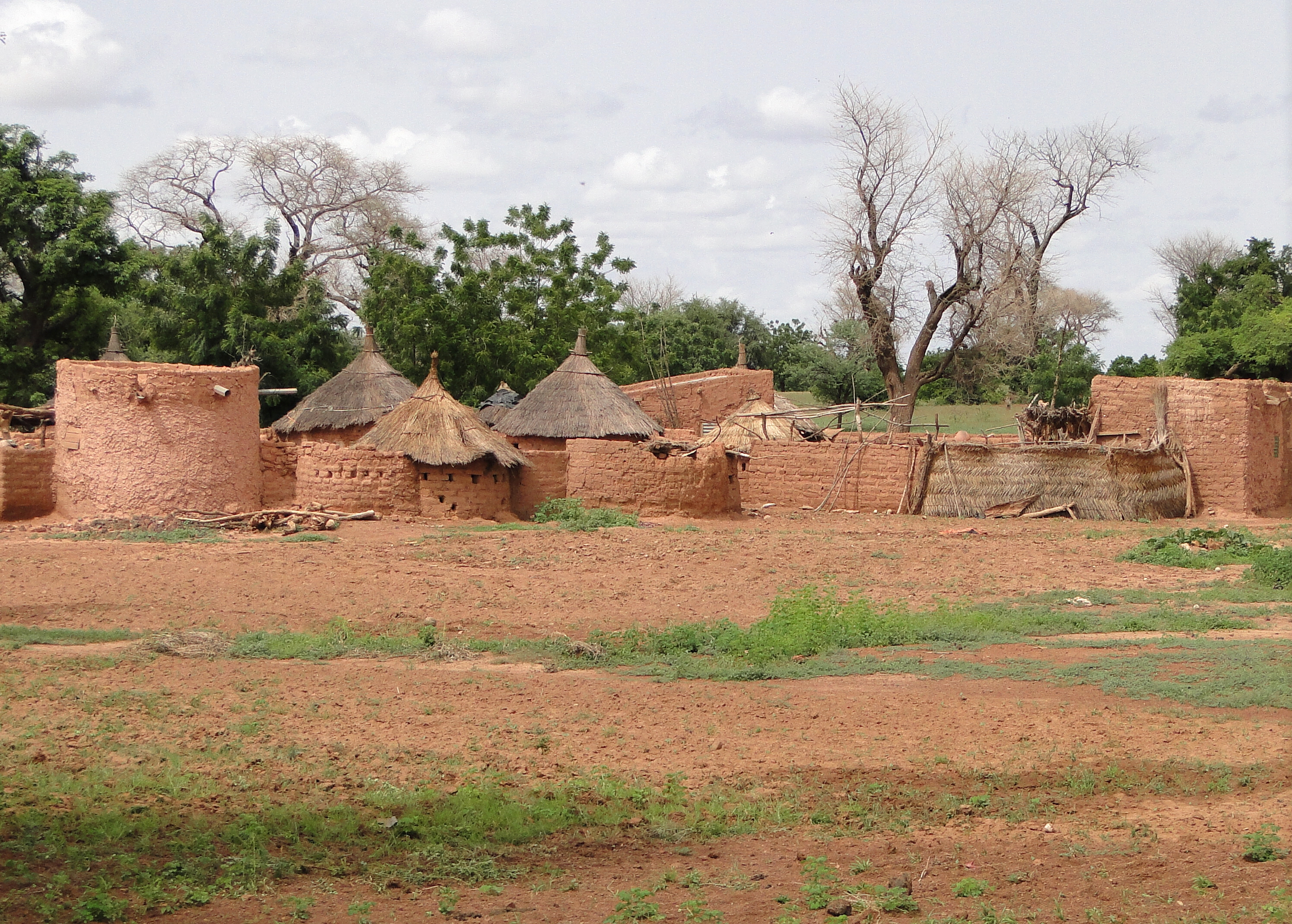 Rural Scene en Route to Dori - Sahel Region - Burkina Faso